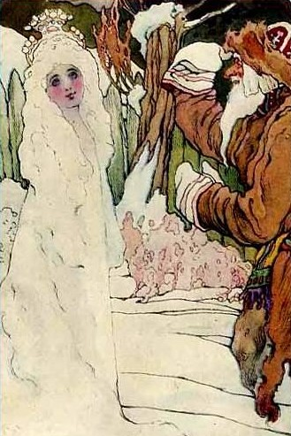 Postcard by Matorin Nikolay Vasilyevich. The character from a Russian fairy tale